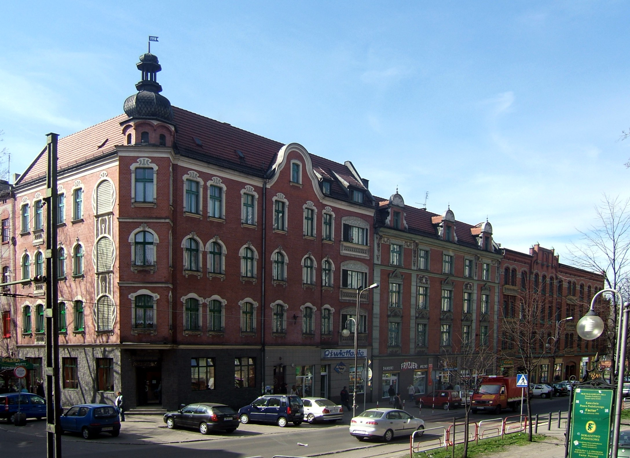 Niedurnego street in Nowy Bytom, a district of Ruda Śląska.